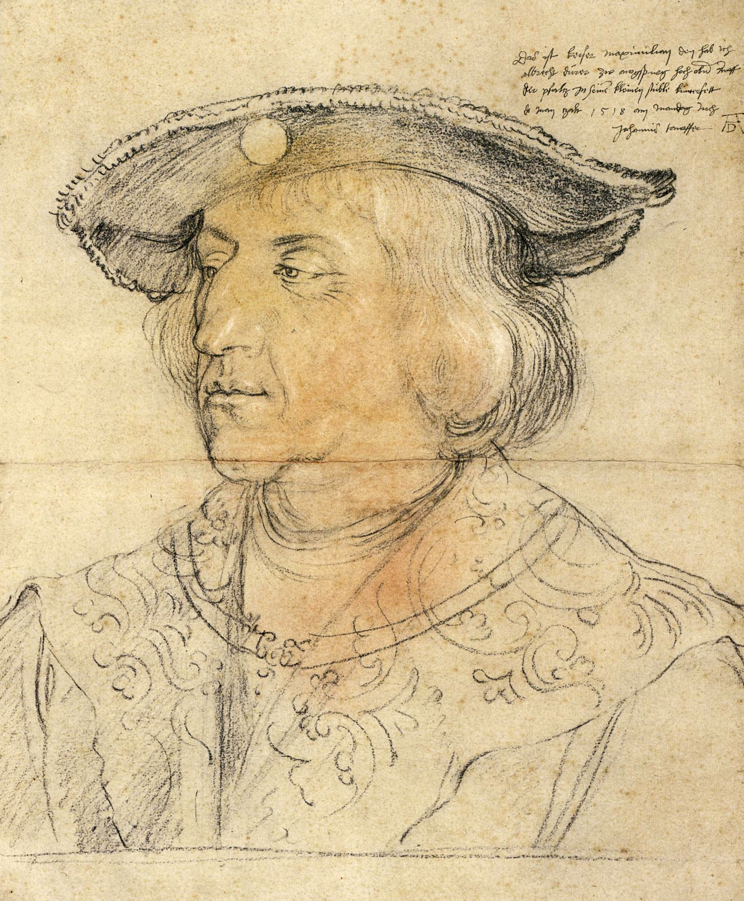 Portrait of Maximilian I of Habsburg (22 March 1459 – 12 January 1519)